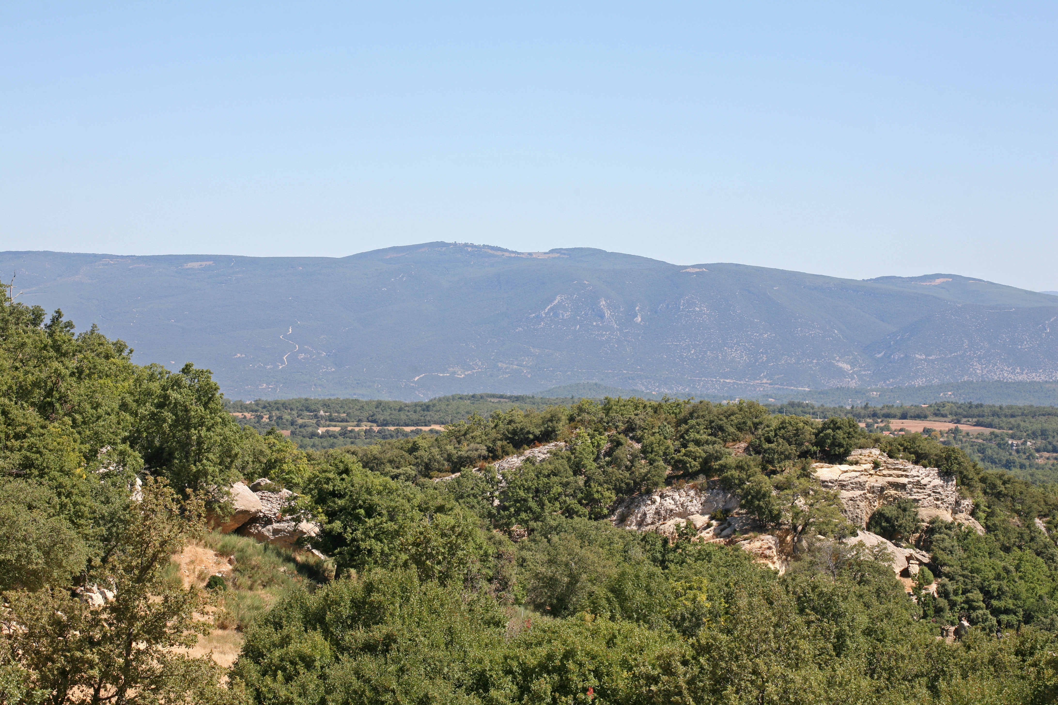 view from south of the « signal de Saint-Pierre » (1 256 m), the higest hills of the « Monts de Vaucluse », France. Picture taken on the hight of Sivergues